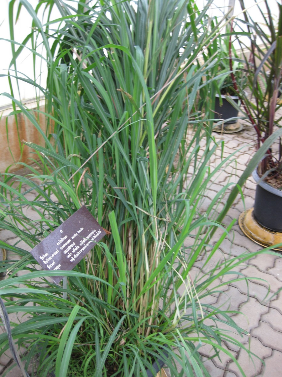 Photographed at the Queen Sirikit Botanic Garden (Chiang Mai Province, Thailand) in March